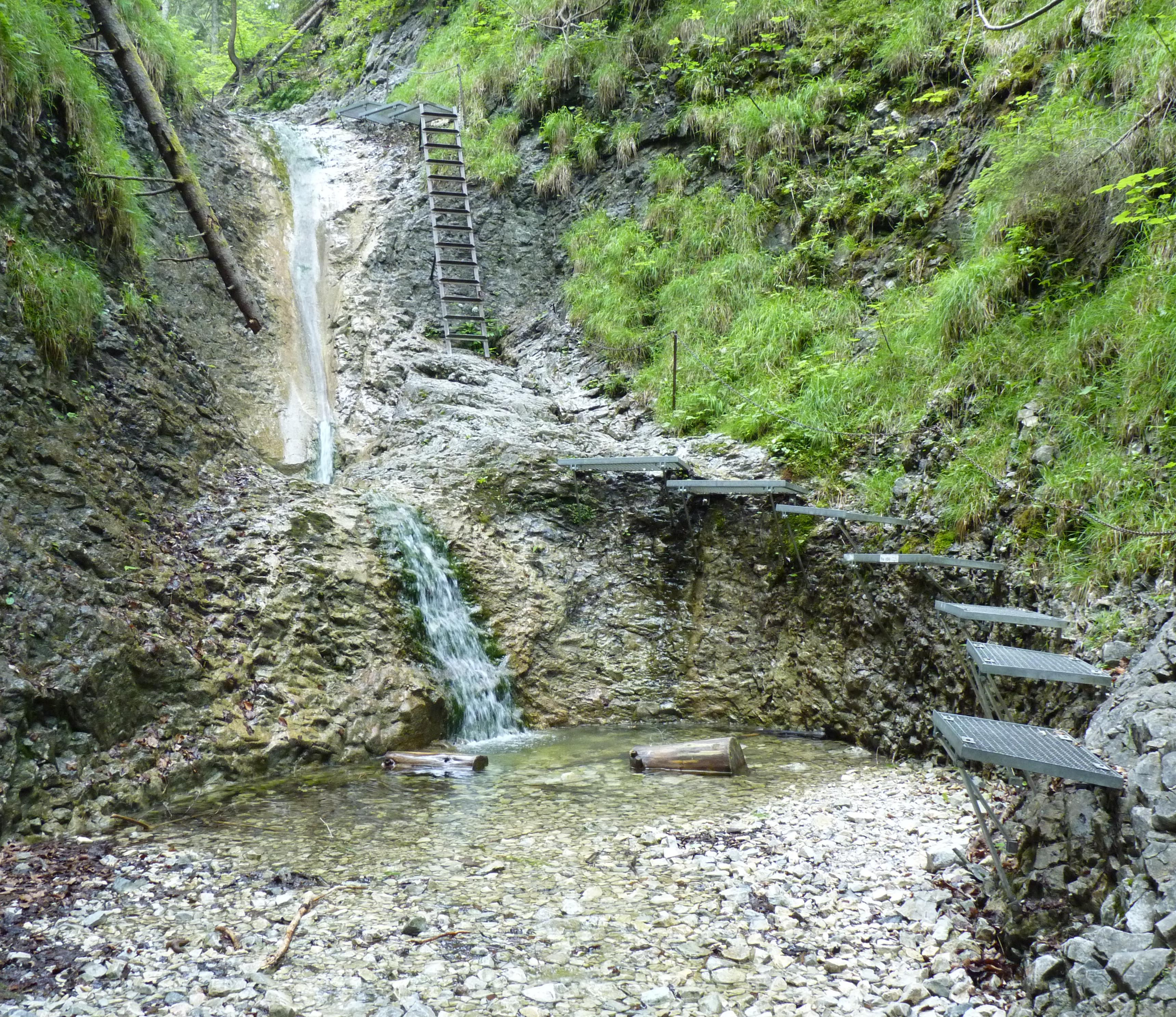 Korytový waterfall. National nature reserve Suchá Belá, Slovak Paradise, Slovakia